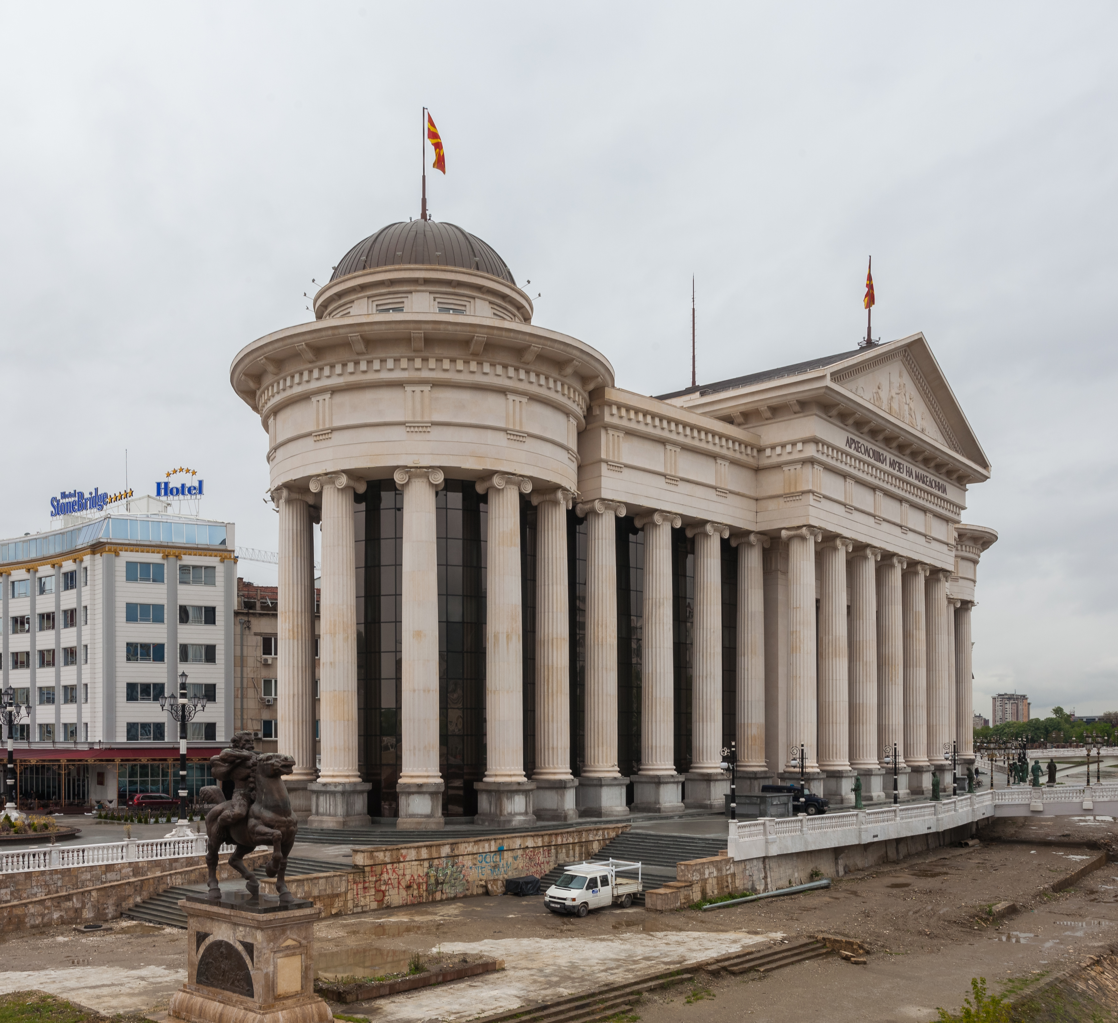 Archeological Museum, Skopje, Republic of Macedonia